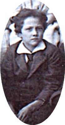 Photograph of Varian Fry (1907-1967) taken when he was a boy